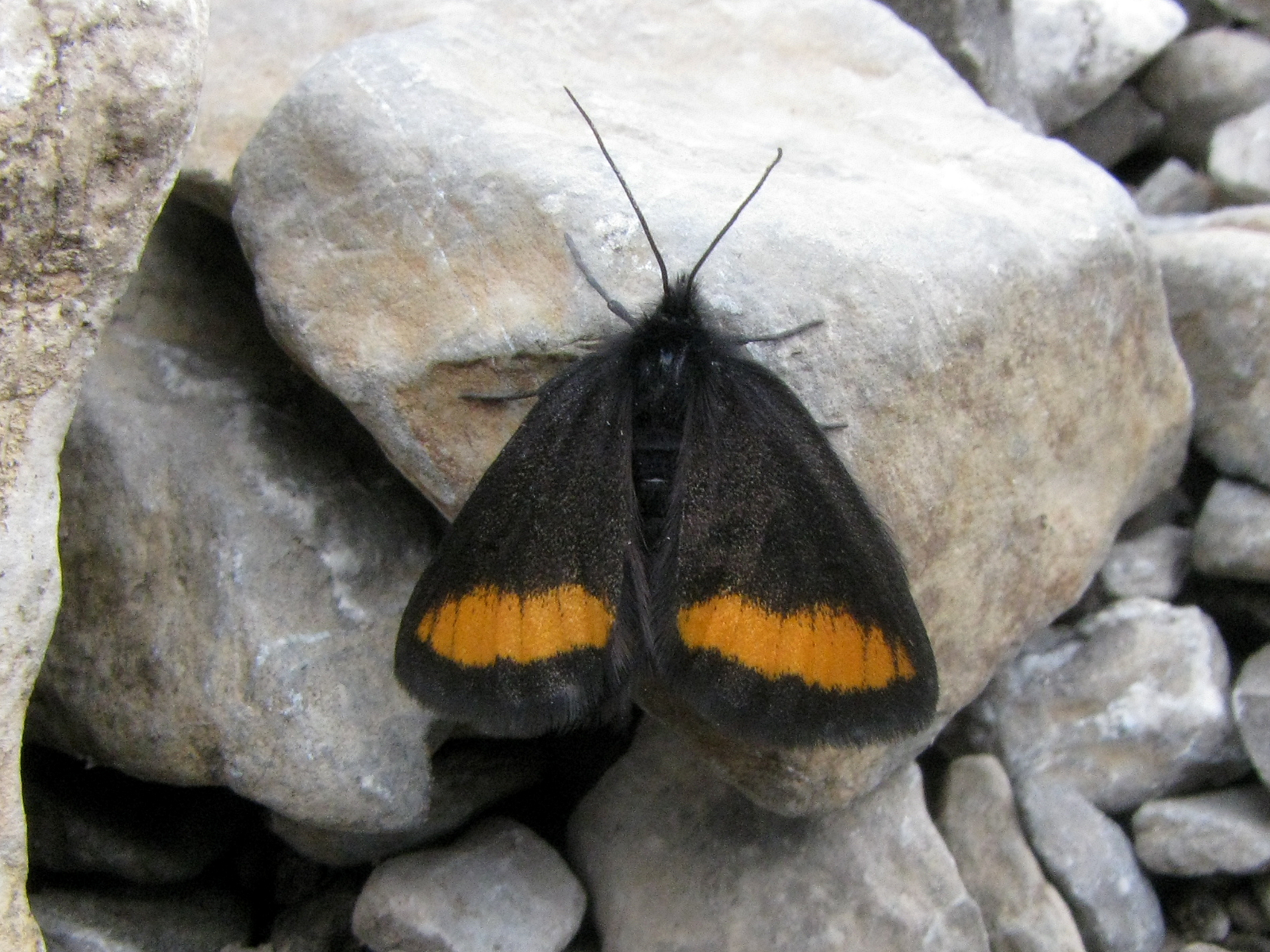 Psodos quadrifaria, (Geometridae, Ennominae), Allgäu Alps, 2000m